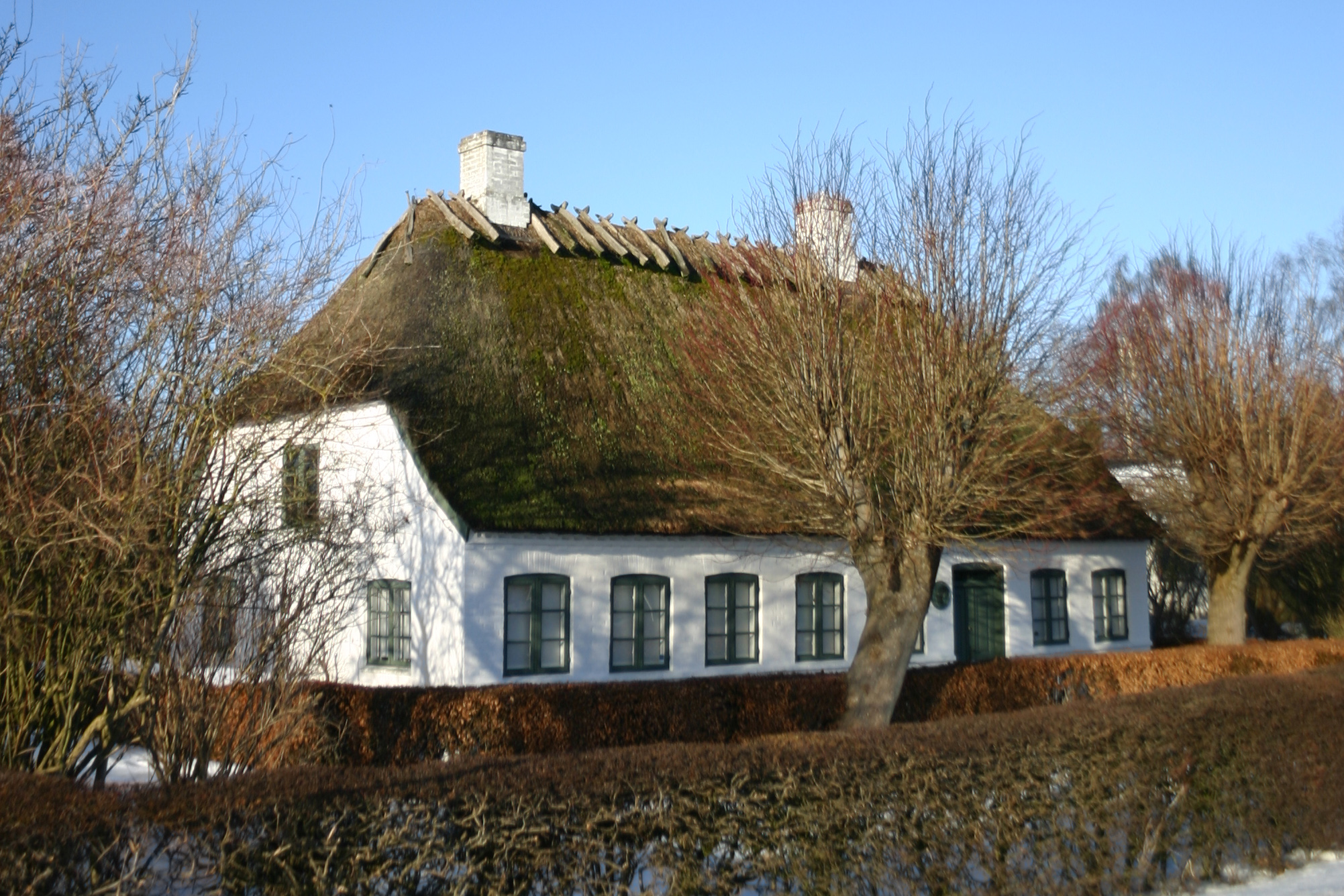 Danish composer Carl Nielsen's childhood home in Nørre Lyndelse, Denmark